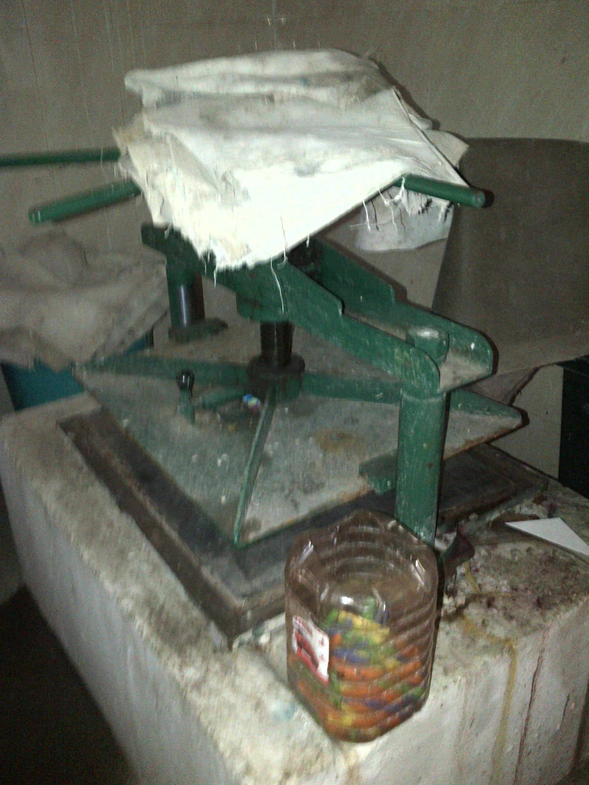 ಸ್ಕ್ರೂ ಪ್ರೆಸ್ಸ್ ಯಂತ್ರ